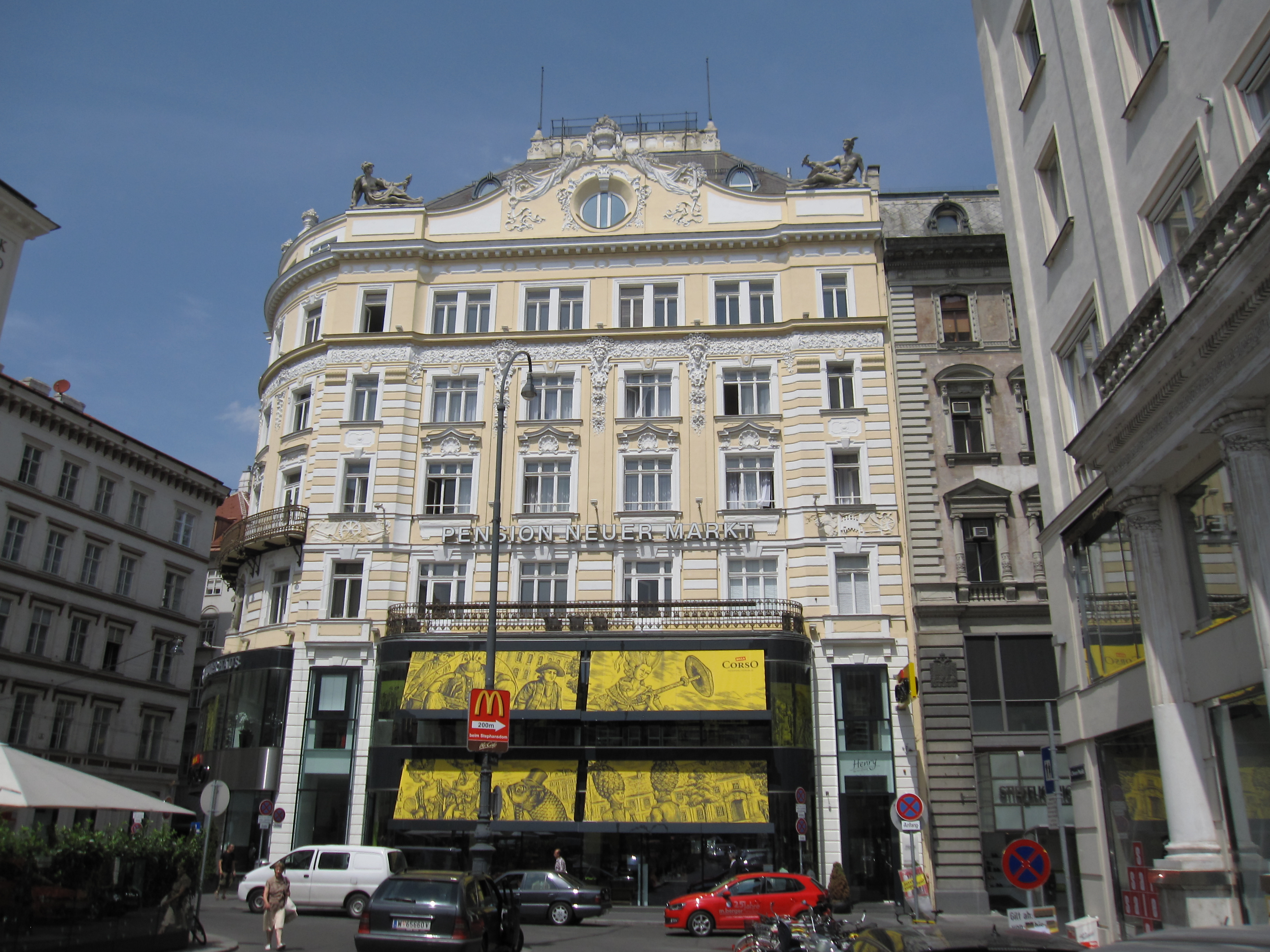 The Herrnhuterhaus at Neuer Markt 17 in Vienna's district I. Formerly the clothes chain Fürnkranz used to be located here until 2009, since 2010 the grocery chain Billa Corso.